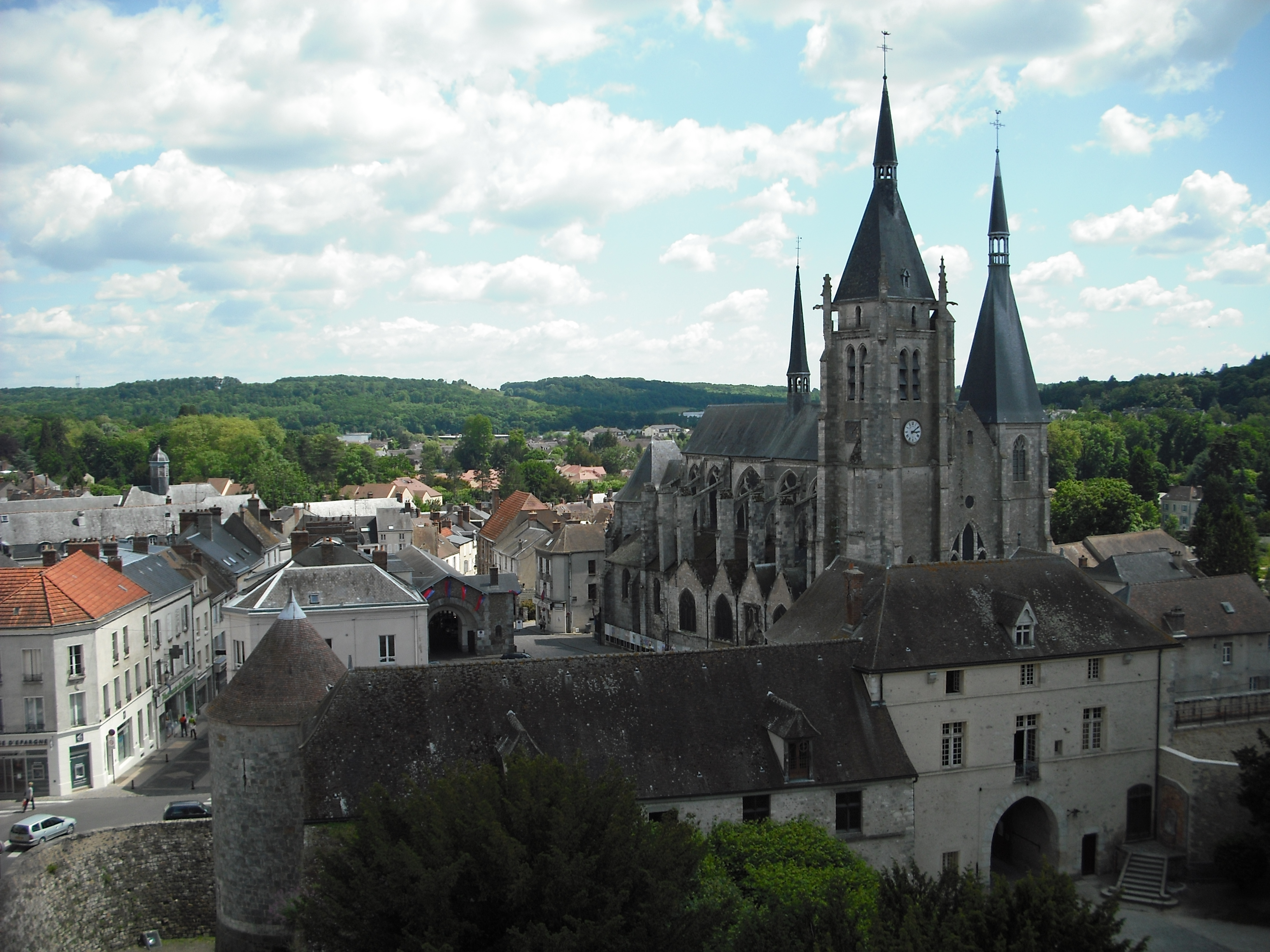 View of central Dourdan showing Saint-Germain-l'Auxerrois Church